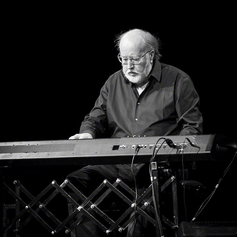 Rainer Brüninghaus performs with Jan Garbarek Group featuring Trilok Gurtu at the main stage of Oslo Opera House. The concert was part of the Oslo Jazz Festival in Norway and took place on 14. August 2016. Lineup:Jan Garbarek (saxophone)Rainer Brüninghaus (keyboard)Yuri Daniel (bass)Trilok Gurtu (percussion)